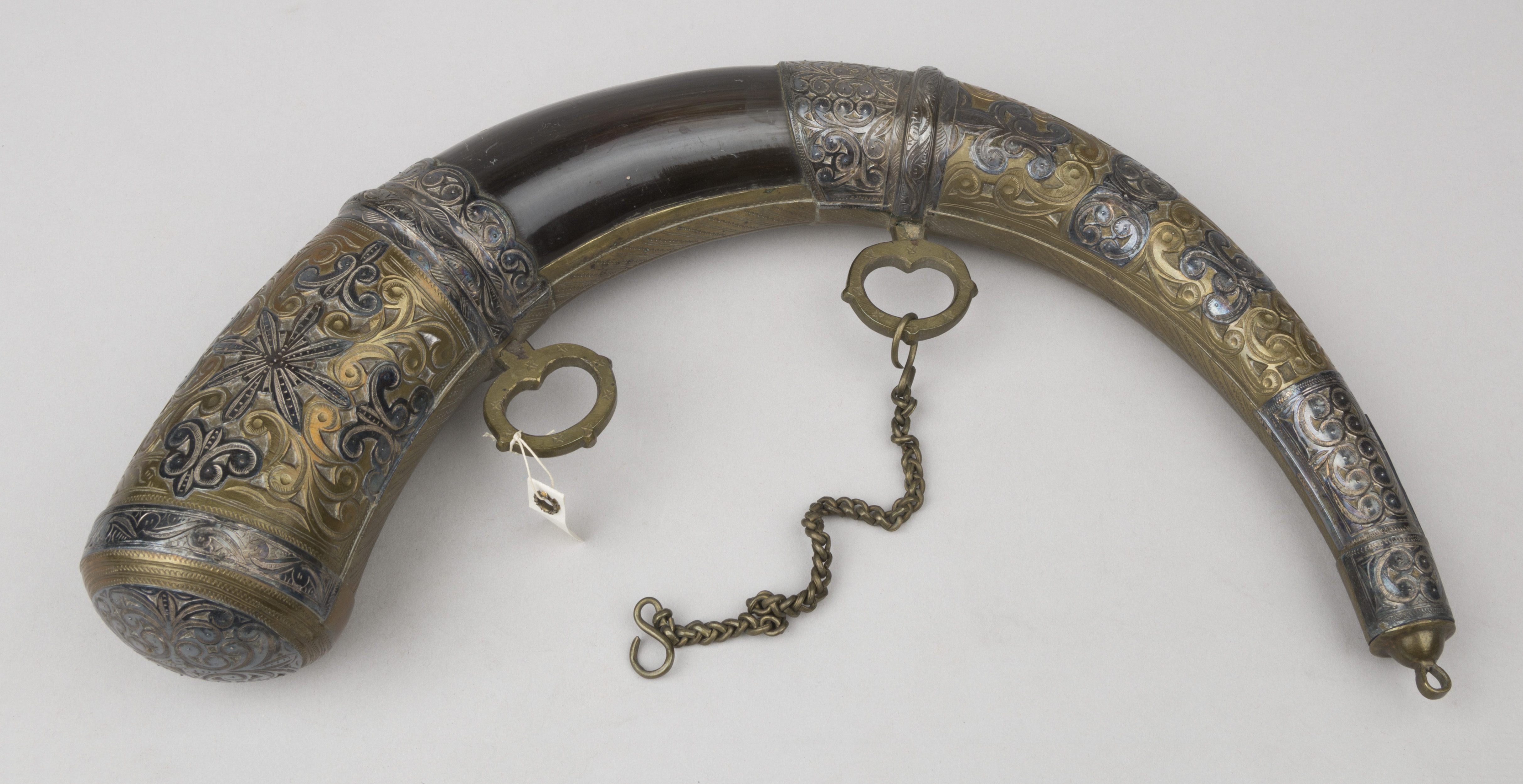 Wooden powder horn from Marocko with silver fittings.